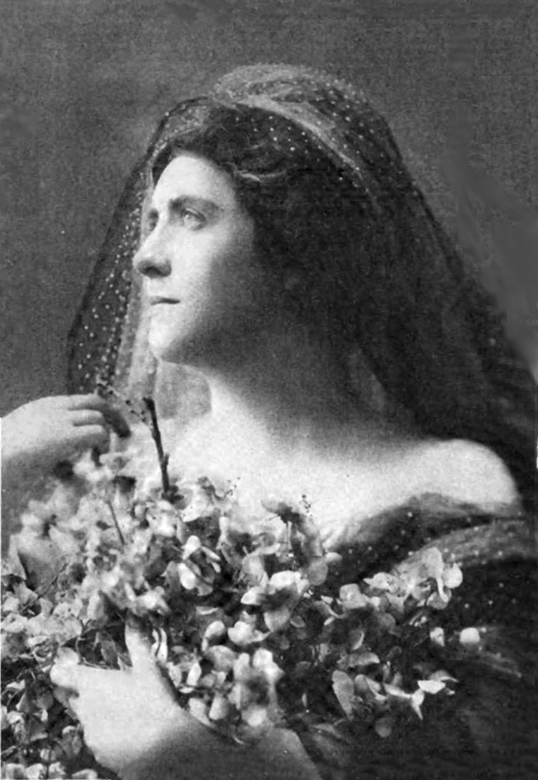 Mabel Bardine in 1909 in Nell of the Halls